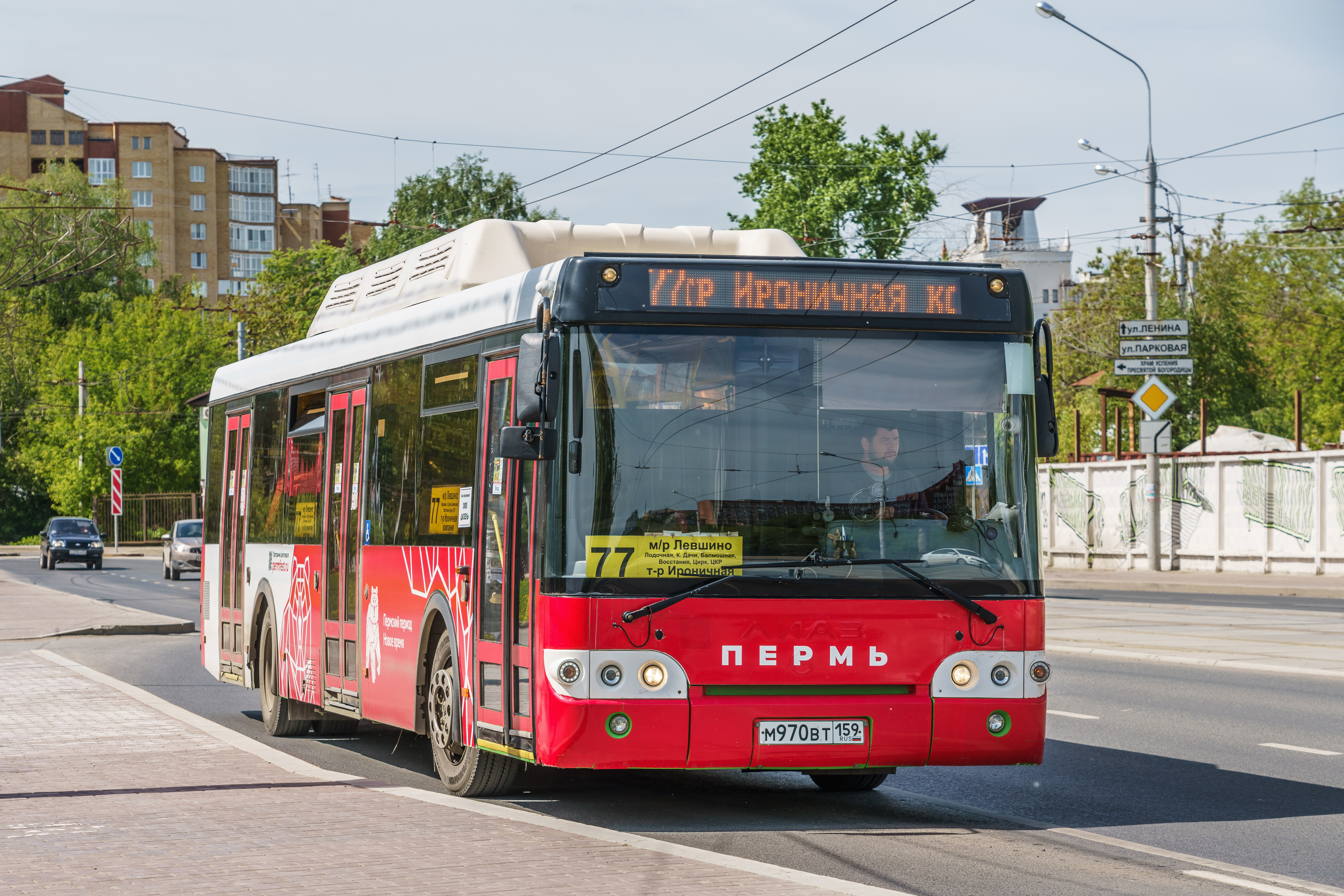 LiAZ-5292 bus on Uralskaya Street (Razgulay stop) in Perm, Russia